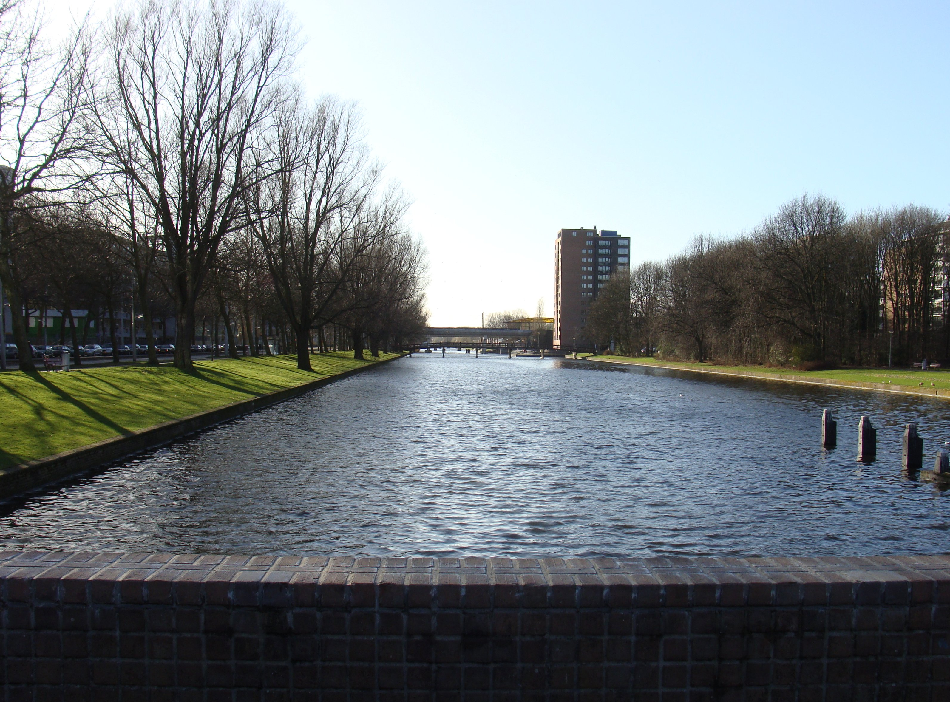 Slotervaart in Amsterdam, seen from the Delflandlaan, looking towards the West.